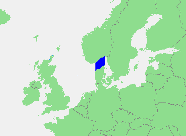 Locator map of Skagerrak — a strait/bay of the North Sea.